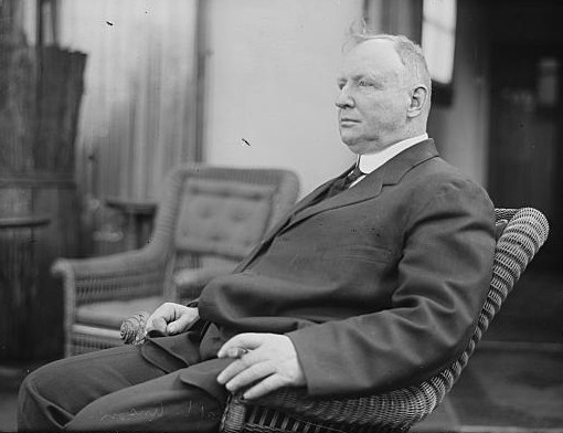 Cap Anson (1852 – 1922), professional baseball player